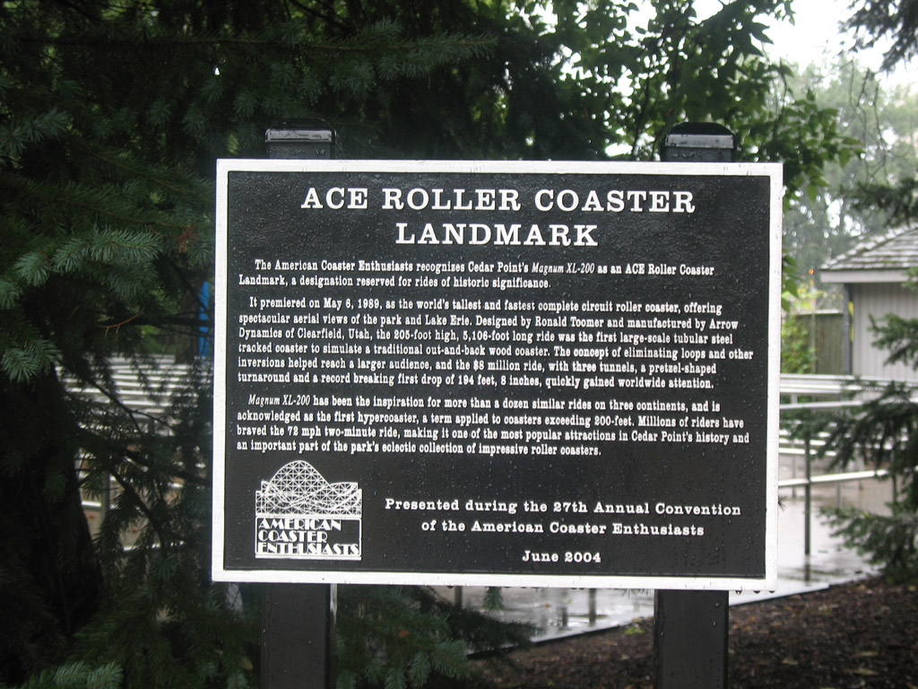 American Coaster Enthusiasts Landmark Award plaque outside Magnum XL-200 at Cedar Point, Taken August 2007